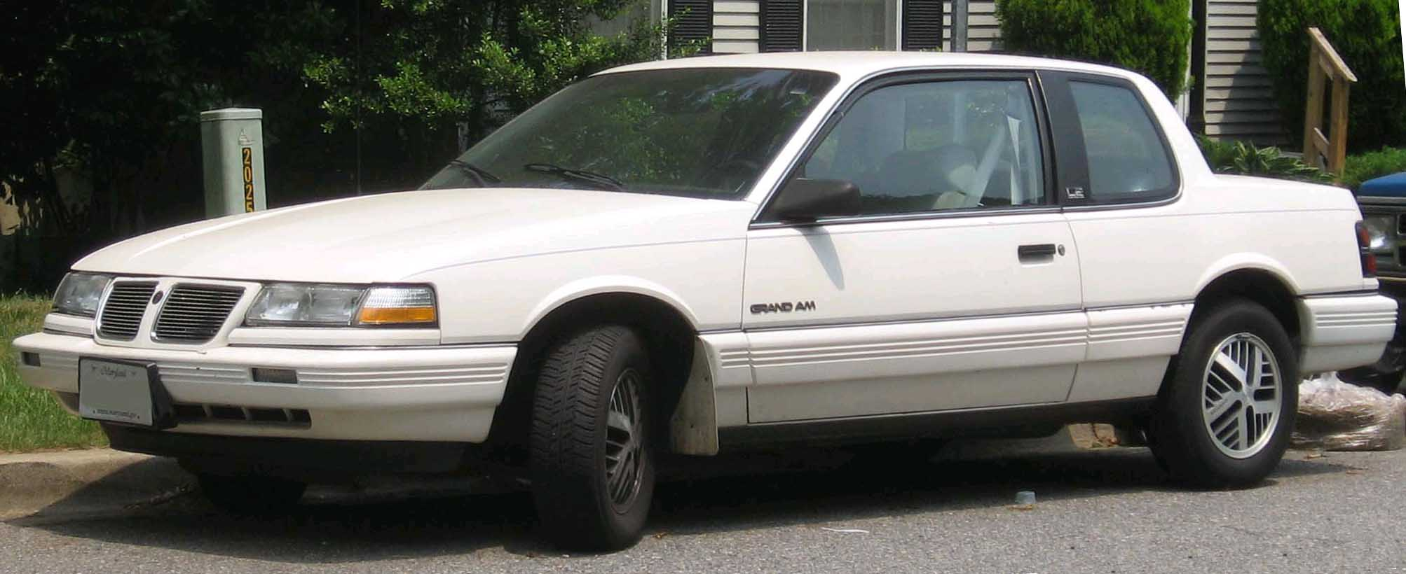 1989-1991 Pontiac Grand Am photographed in Fort Washington, Maryland, USA.